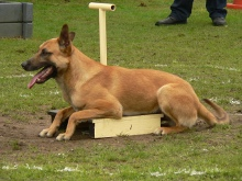 Malinois in NVBK ring competition, category 3. Belgium 2005